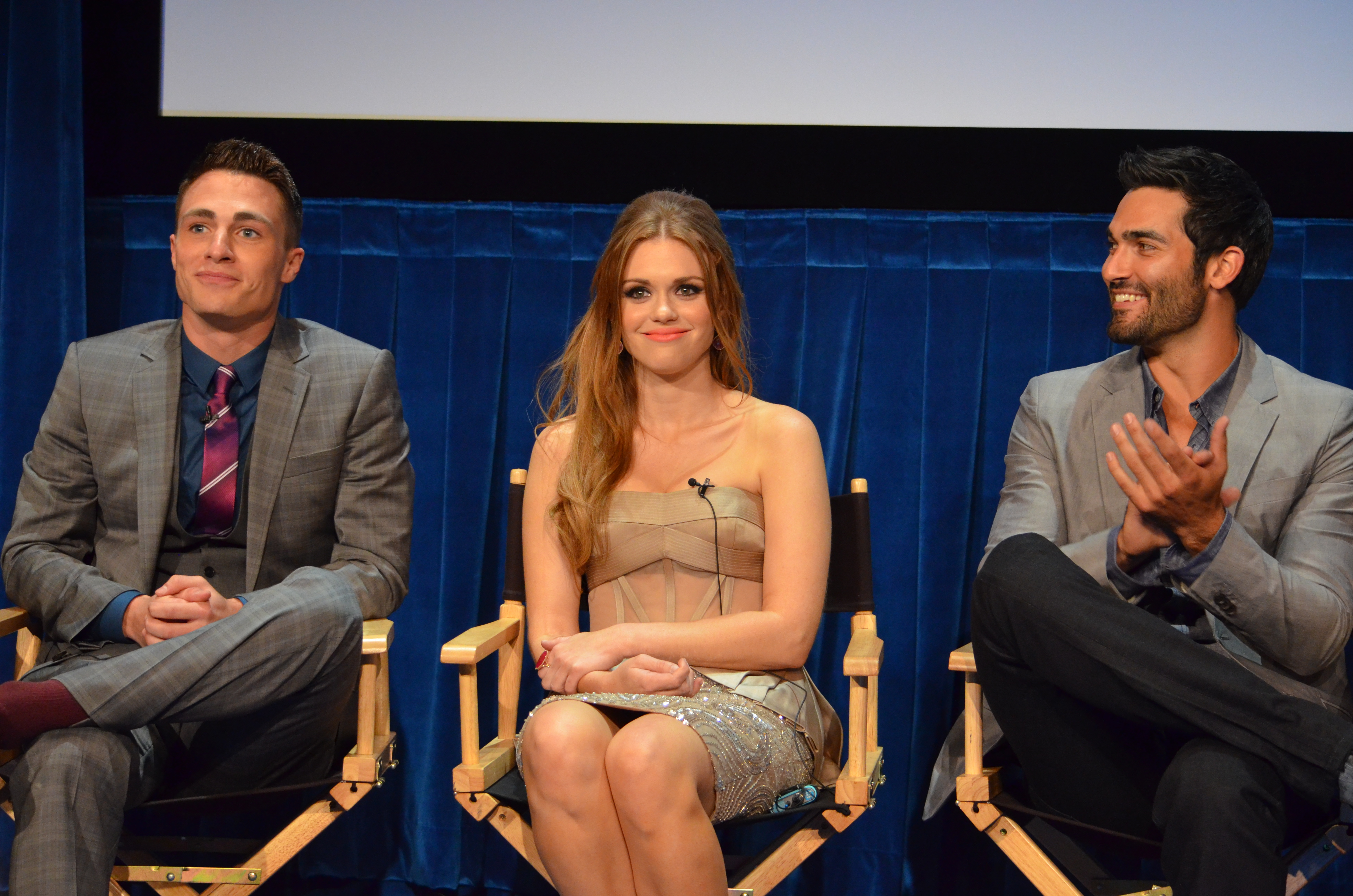 Colton Haynes & Holland Roden & Tyler Hoechlin On Stage @ Paley: Teen Wolf 2012.